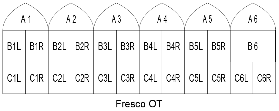 scheme of frescos of Old Testament in Collegiata church in San Gimignano